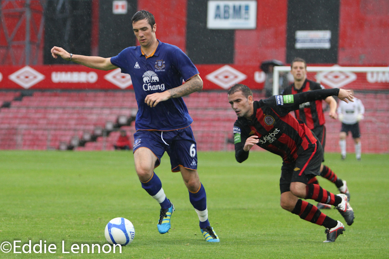 Shane Duffy of Everton vs Bohemians FC.